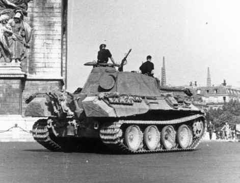 Title: Paris, Panzer V (Panther) vor Arc de Triomphe Extra information: Frankreich, Paris.- Panzer V "Panther" der Waffen-SS vor dem Arc de Triomphe / Triumphbogen; PK KBZ Ob West Factual corrections and alternative descriptions are encouraged separately from the original description. Additionally errors can be reported at this page to inform the Bundesarchiv. Original historic description